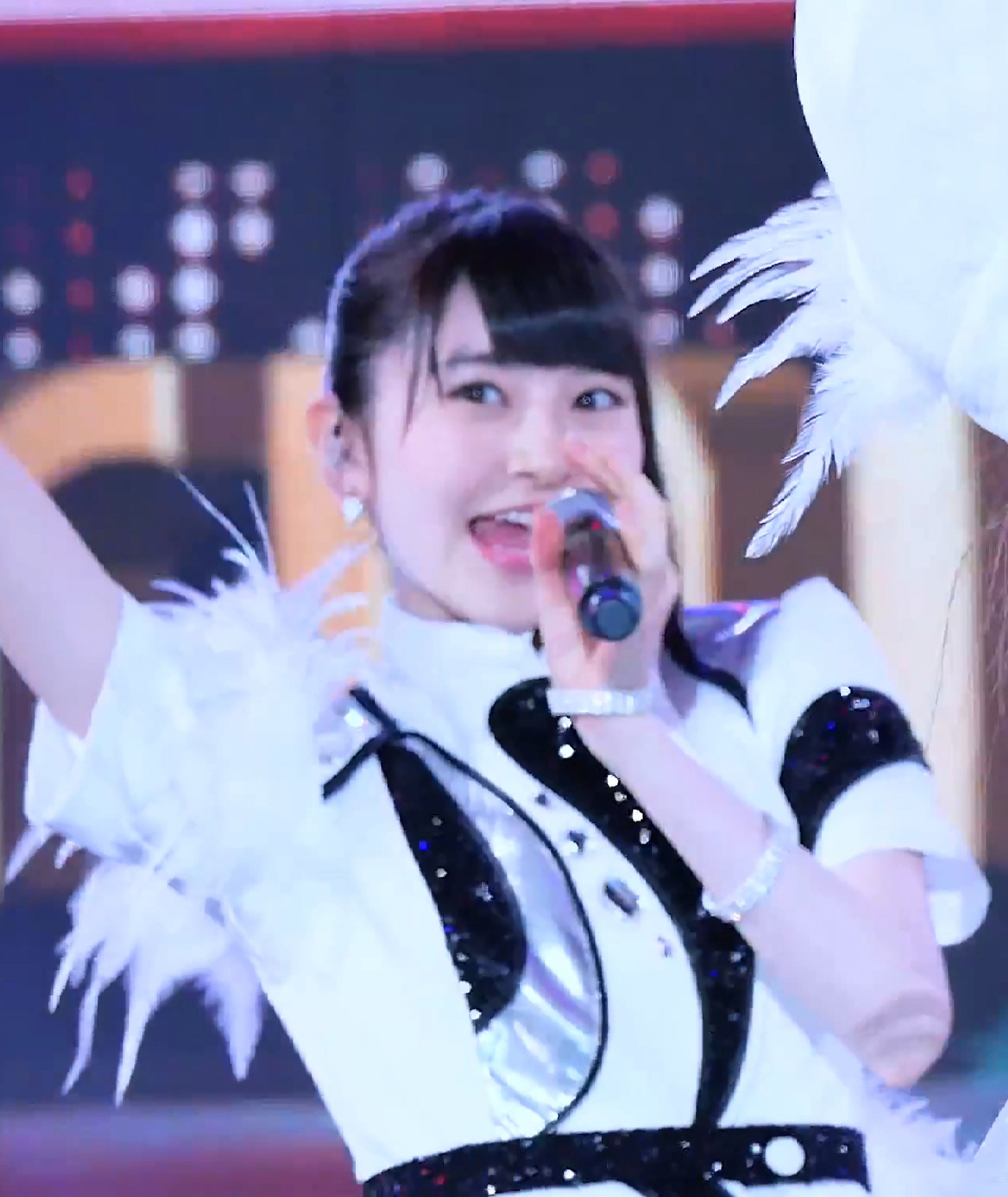 161006 AMN 빅 콘서트 - 후쿠무라 미즈키 우타카다 새터데이나이트 직캠 by DaftTaengk.mp4 (Haruna Ogata)